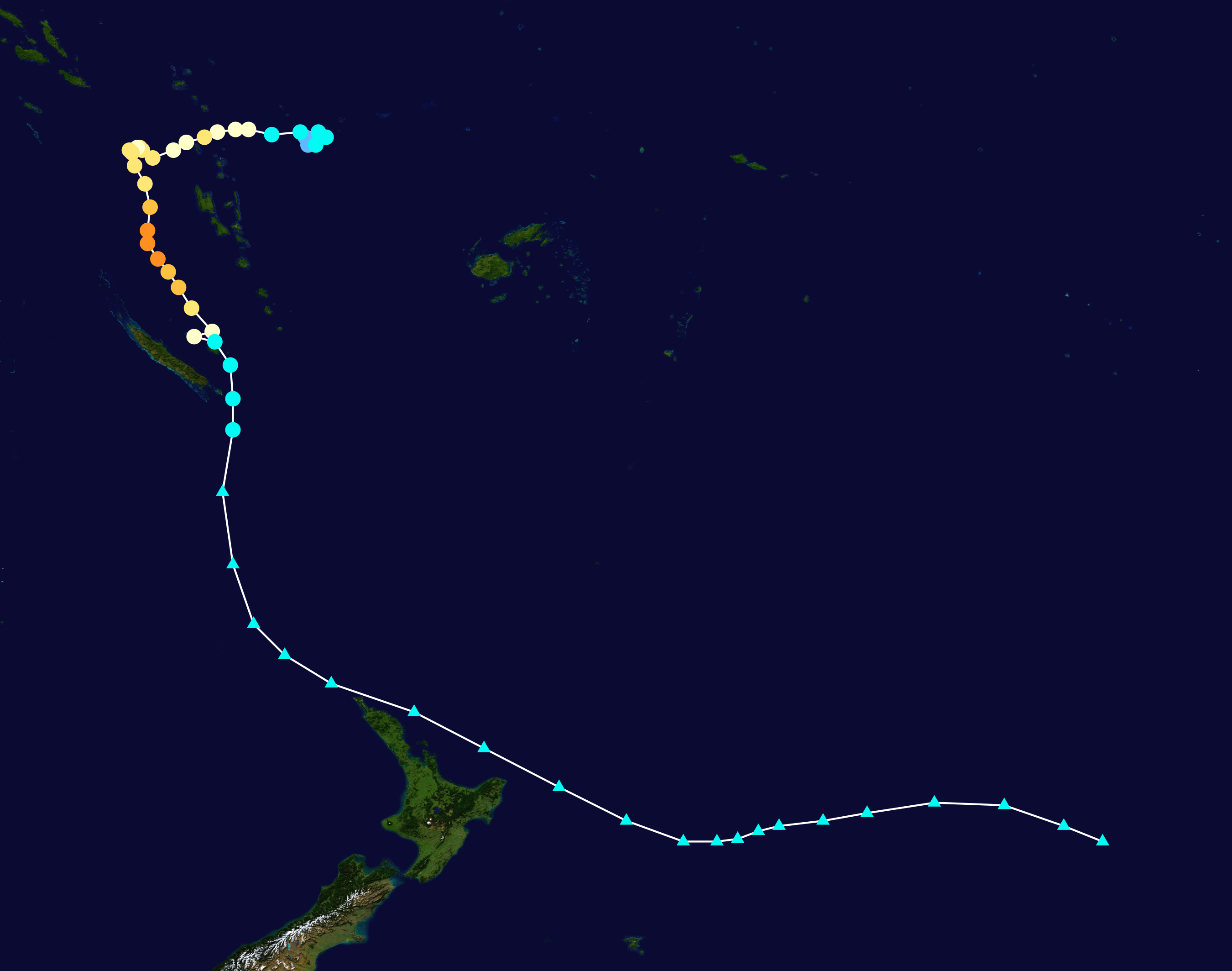 Track map of Severe Tropical Cyclone Donna of the 2016-17 South Pacific cyclone season. The points show the location of the storm at 6-hour intervals. The colour represents the storm's maximum sustained wind speeds as classified in the Saffir–Simpson scale (see below), and the shape of the data points represent the nature of the storm, according to the legend below. Saffir–Simpson scale Tropical depression≤38 mph≤62 km/h Category 3111–129 mph178–208 km/h Tropical storm39–73 mph63–118 km/h Category 4130–156 mph209–251 km/h Category 174–95 mph119–153 km/h Category 5≥157 mph≥252 km/h Category 296–110 mph154–177 km/h Unknown Storm type Tropical cyclone Subtropical cyclone Extratropical cyclone / Remnant low / Tropical disturbance / Monsoon depression